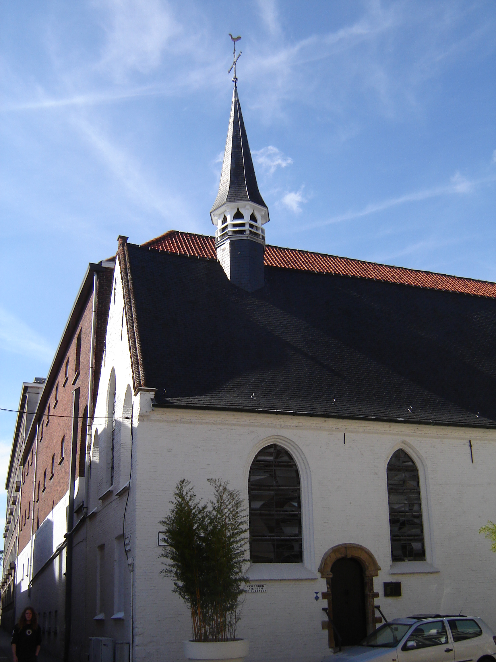 Saint Nicolas Chapel in Kortrijk,, West Flanders, Belgium.